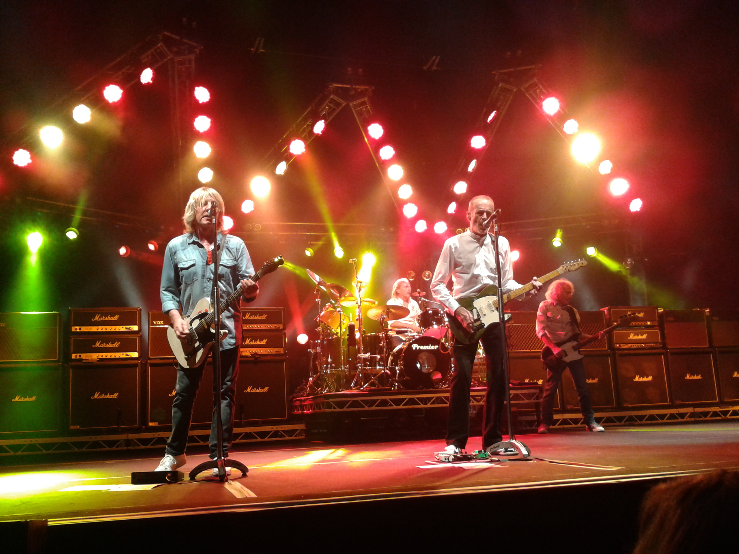 The picture was taken in the Konig Pilsener Arena in Oberhausen, Germany on March 19th, 2014